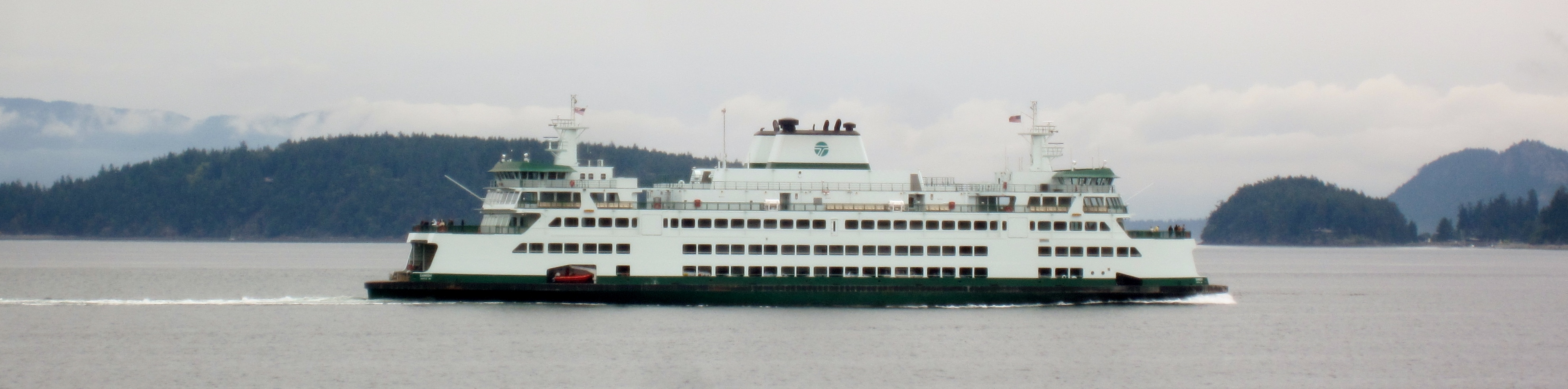 The Samish heads for Anacortes.